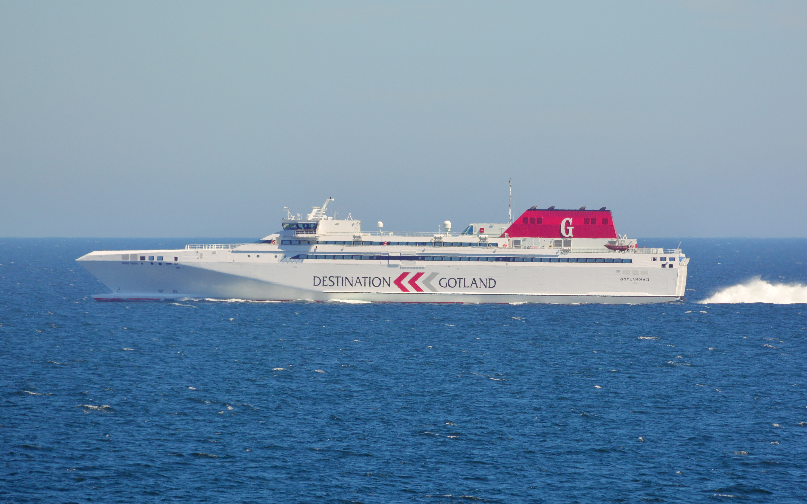 High-speed ferry Gotlandia II